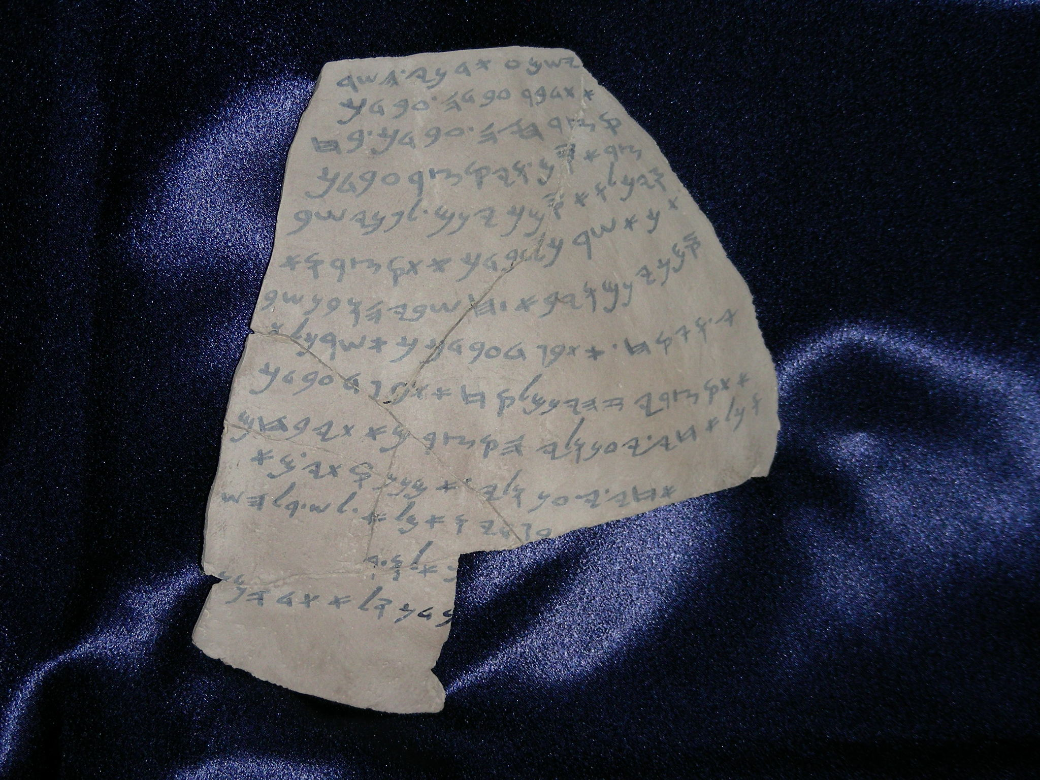 Replica of the Mesad Hashavyahu Ostracon